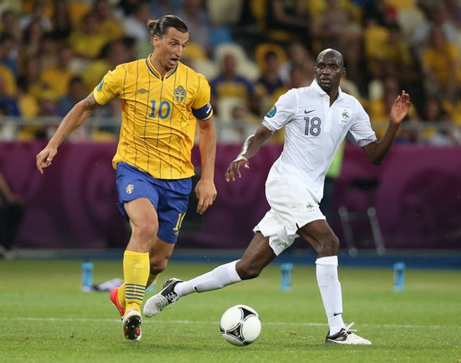 Zlatan Ibrahimović and Alou Diarra at the Euro 2012 match Sweden-France